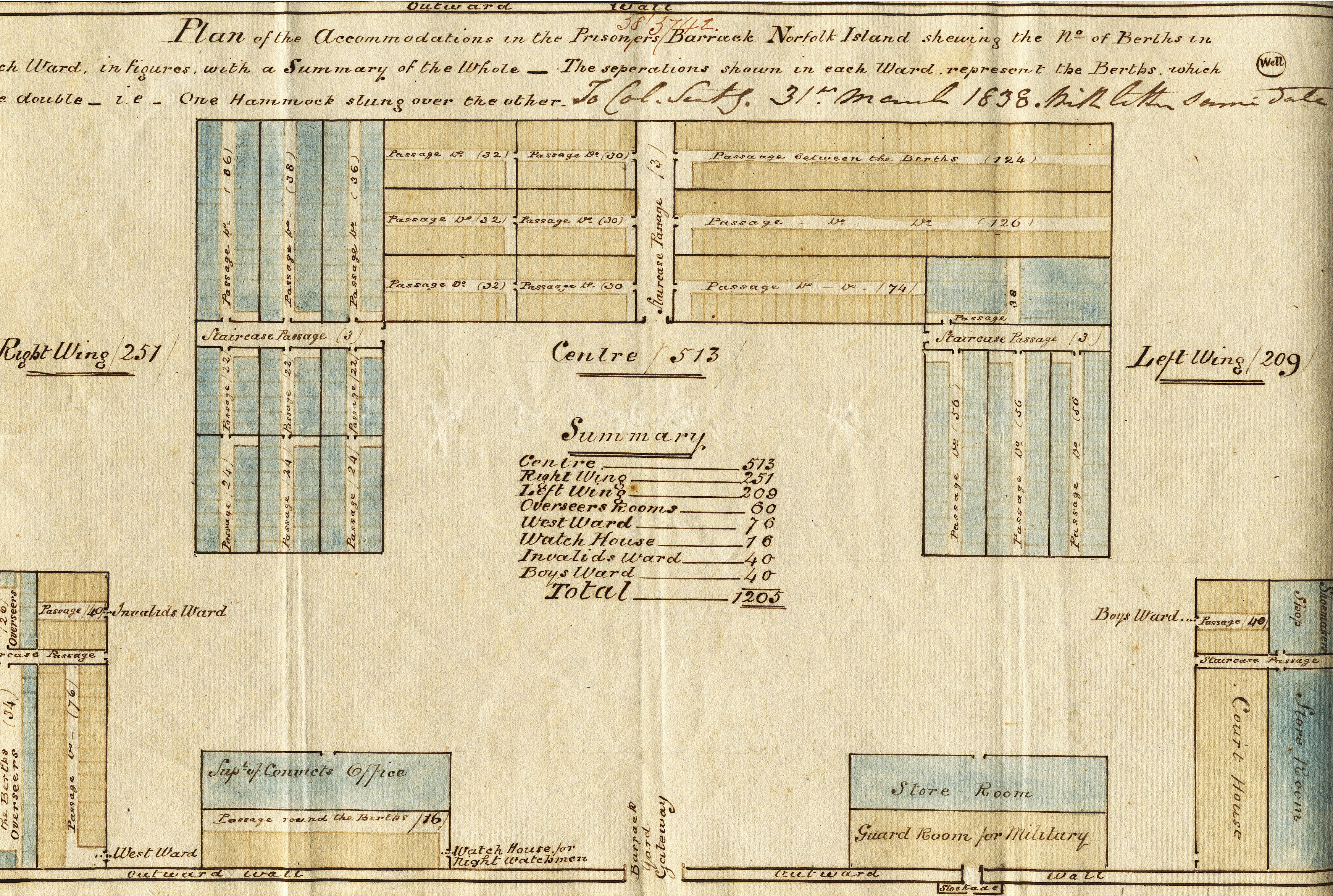 This coloured plan of the prisoner barracks is dated 31 March 1838. It shows the different wards, including the Invalid and Boys Ward. Source: NRS 905 [4/2412.2 Letter 38/3742] See our webpage on the Norfolk Island Convict Settlement Rights: We'd love to hear from you if you use our photos/documents.